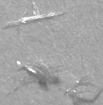 Original description: Benzoic acid crystals, synthesized 15/11/2005 (From Benzamide). Notice the neddle-shaped crystal.